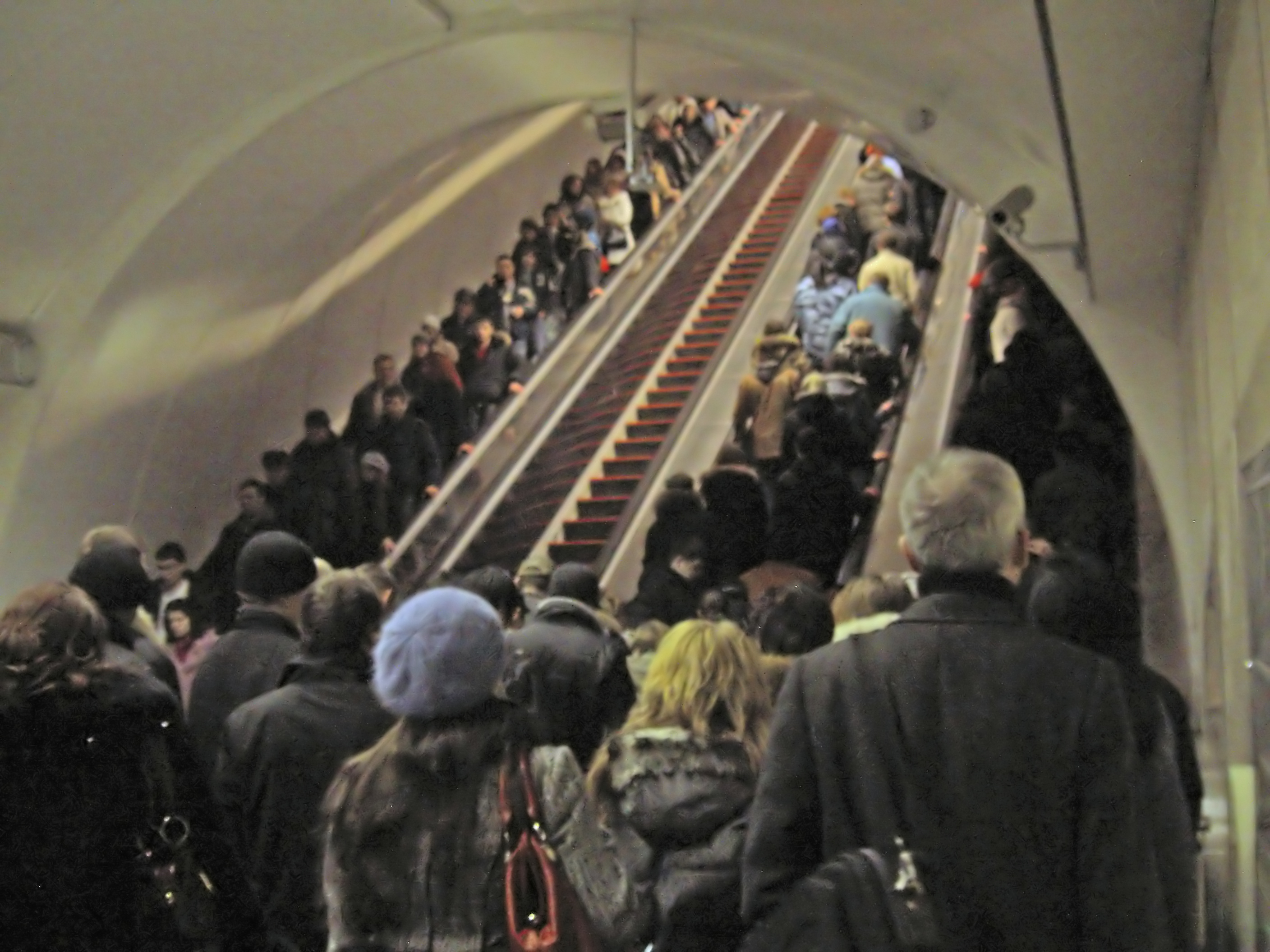 Crossing between metro stations «Spasskaya» and «Sadovaya».